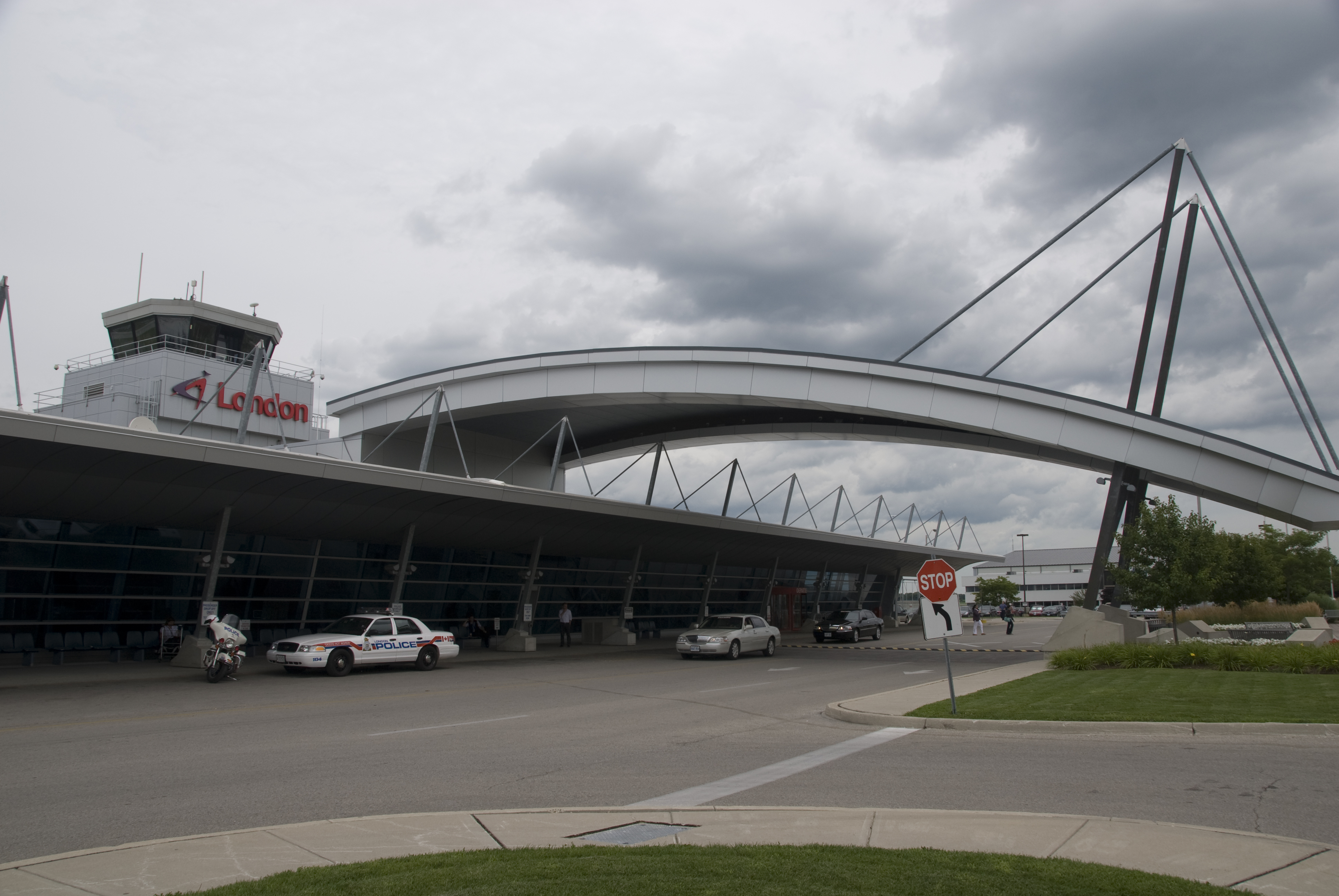 Outside view of London International Airport, Ontario, Canada